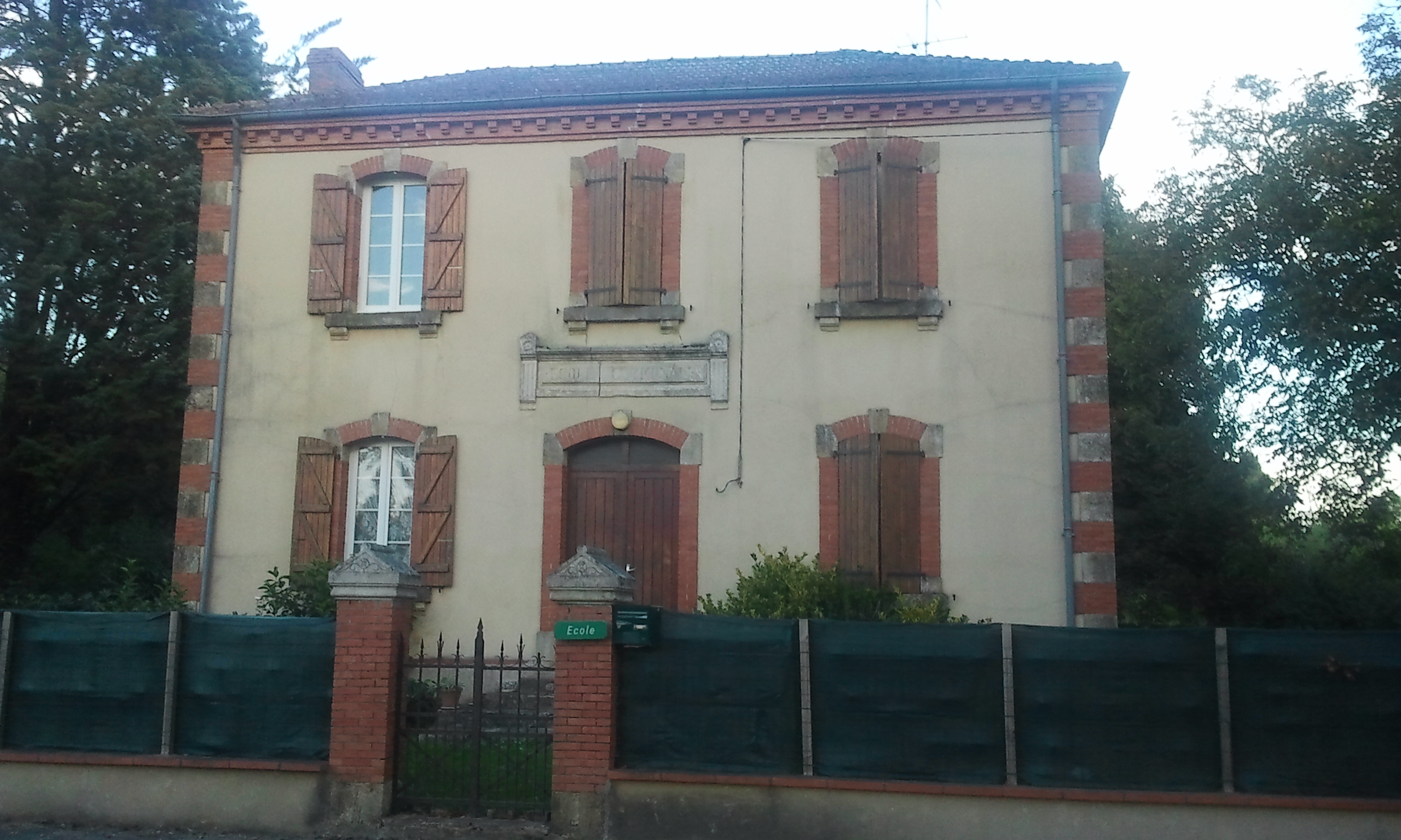 The school in Lamaguère